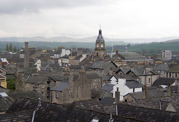 Kendal roofscape The buildings of Kendal, especially on the west side of the main street, are very tightly packed, with access from narrow 'yards', many with no name but identified by numbers. The two prominent features are the chimney of the former public baths and the tower of the Town Hall.